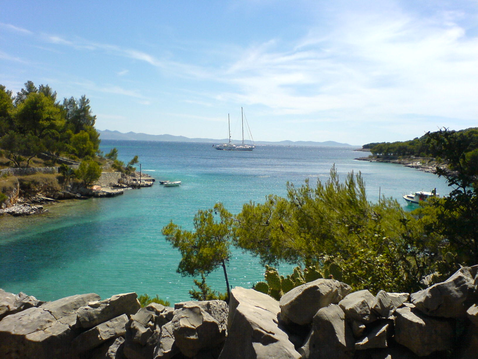 The Lucice bay near Milna, Brac, Croatia